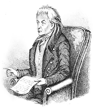 Illustration of Iolo Morganwg.